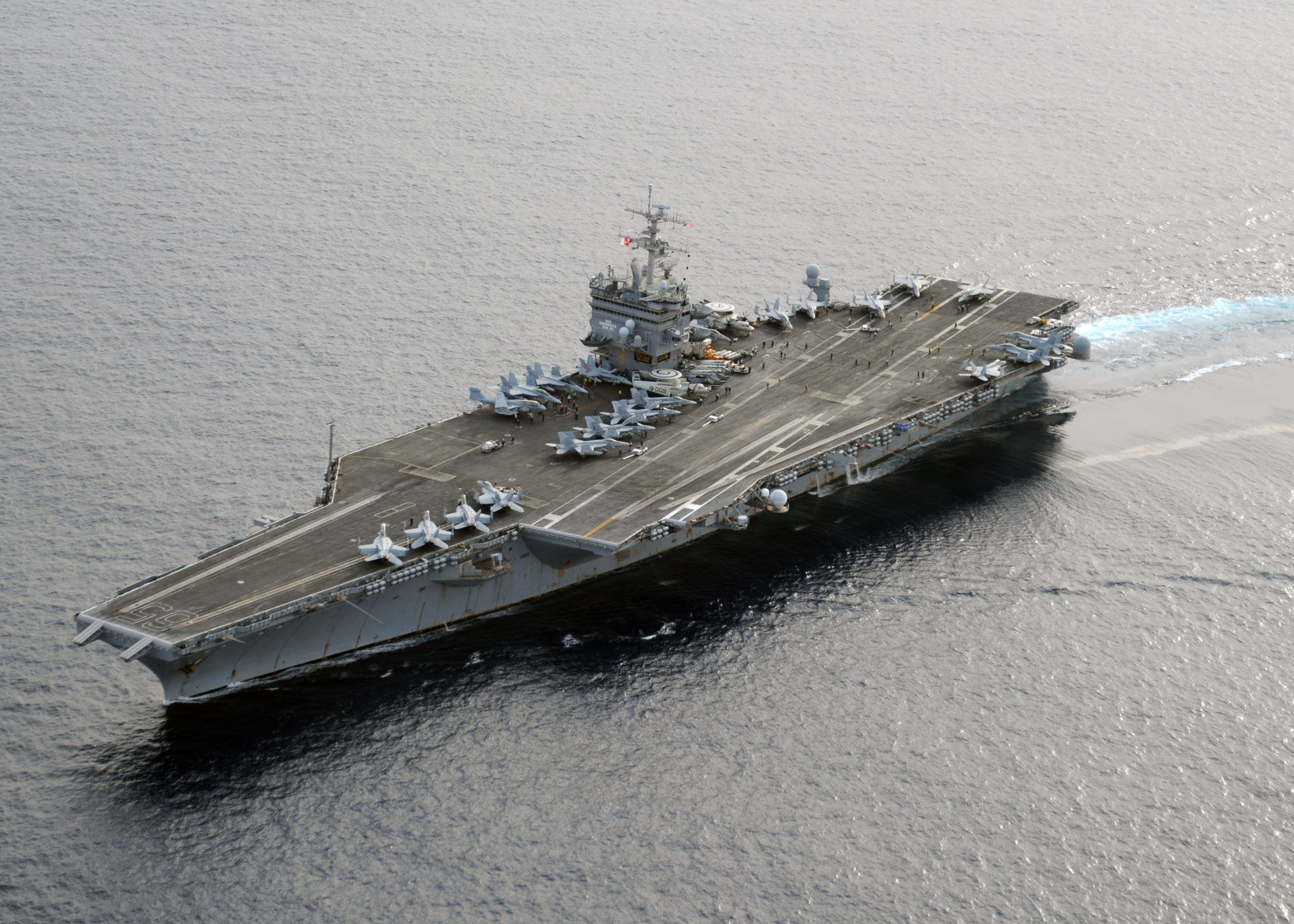 ATLANTIC OCEAN (Jan. 25, 2012) The aircraft carrier USS Enterprise (CVN 65) is underway in the Atlantic Ocean during a composite training unit exercise. (U.S. Navy photo by Mass Communication Specialist Seaman Eric Scot Brann/Released)